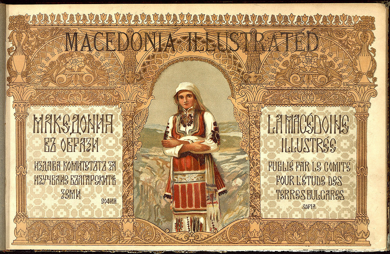 Macedonia illustrated